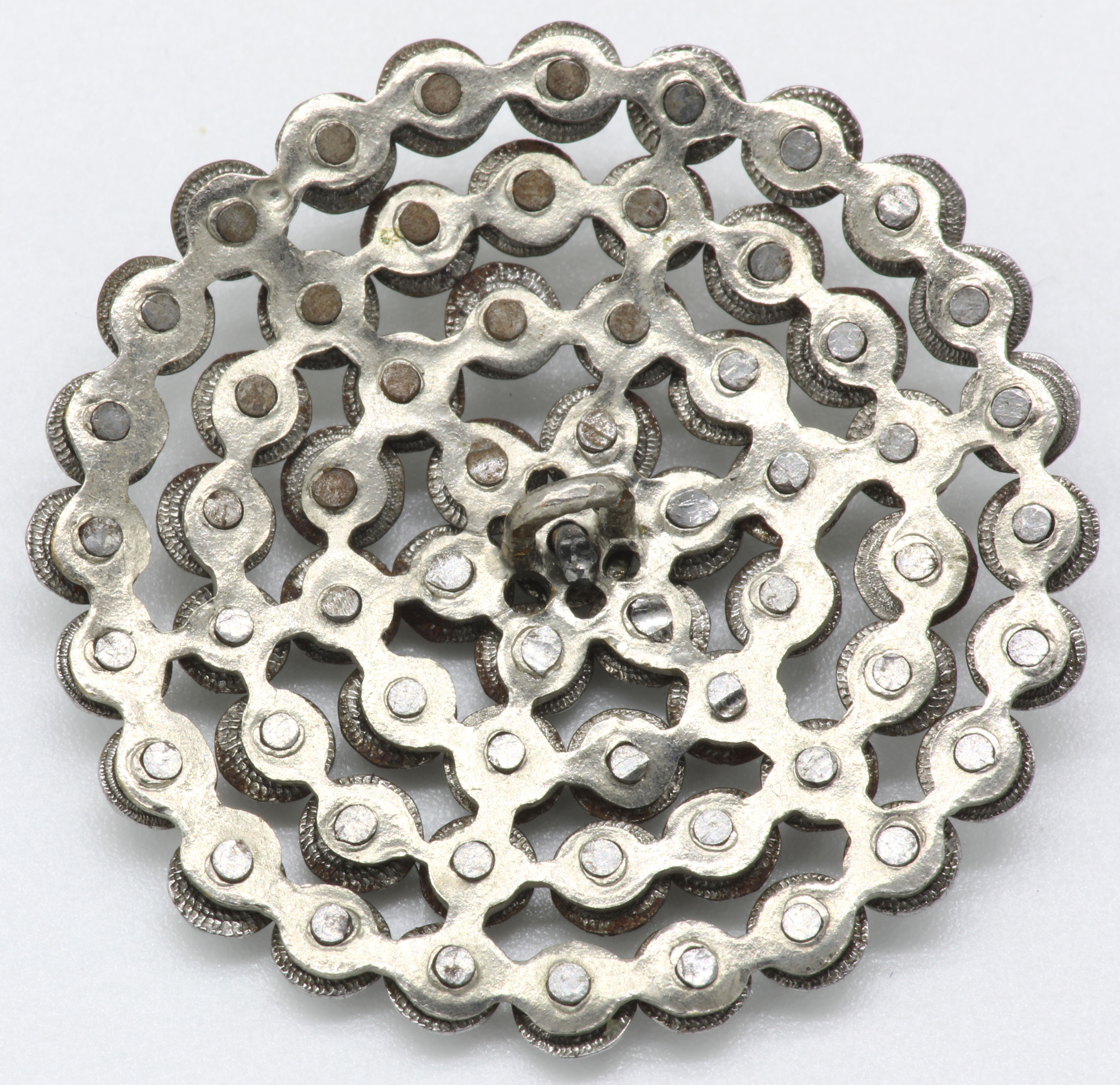 Photo of the back of a cut steel button showing the riveted construction